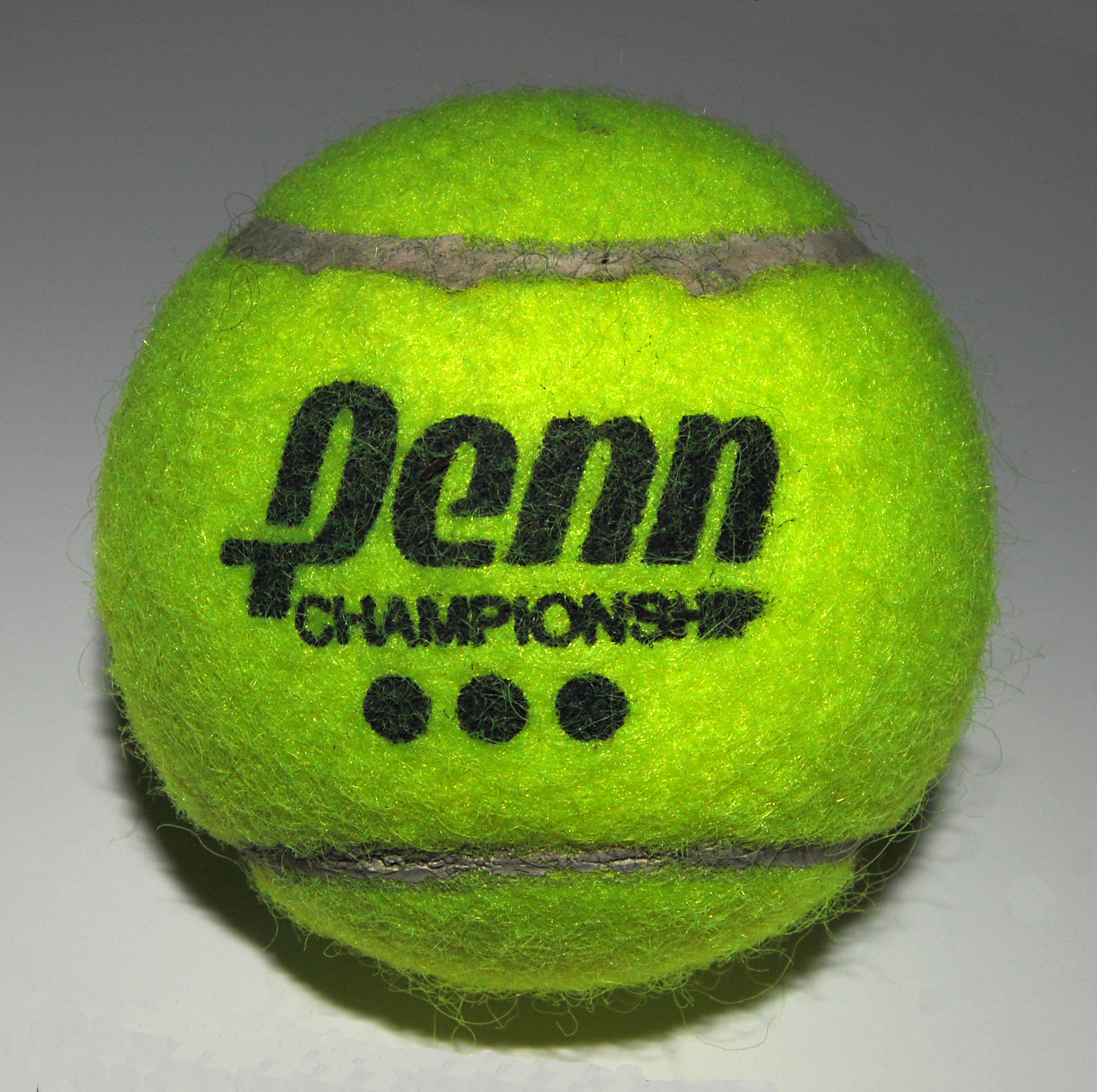 A Tennis ball Author: User:Fcb981